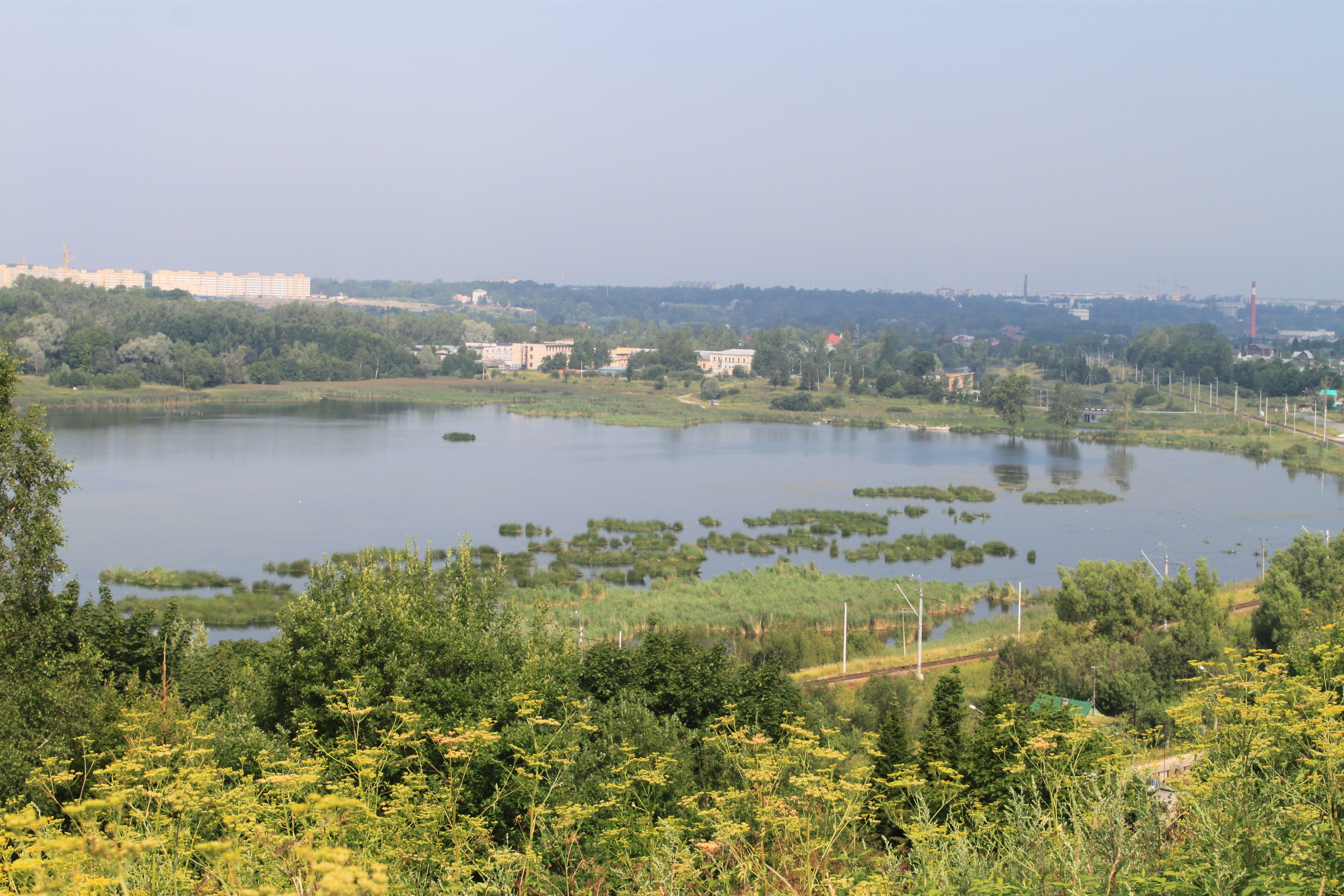 Dudergof lake in Saint Petersburg